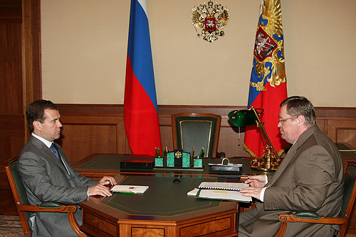 BOCHAROV RUCHEI, SOCHI. With the Plenipotentiary Presidential Representative for the Southern Federal District, Vladimir Ustinov.